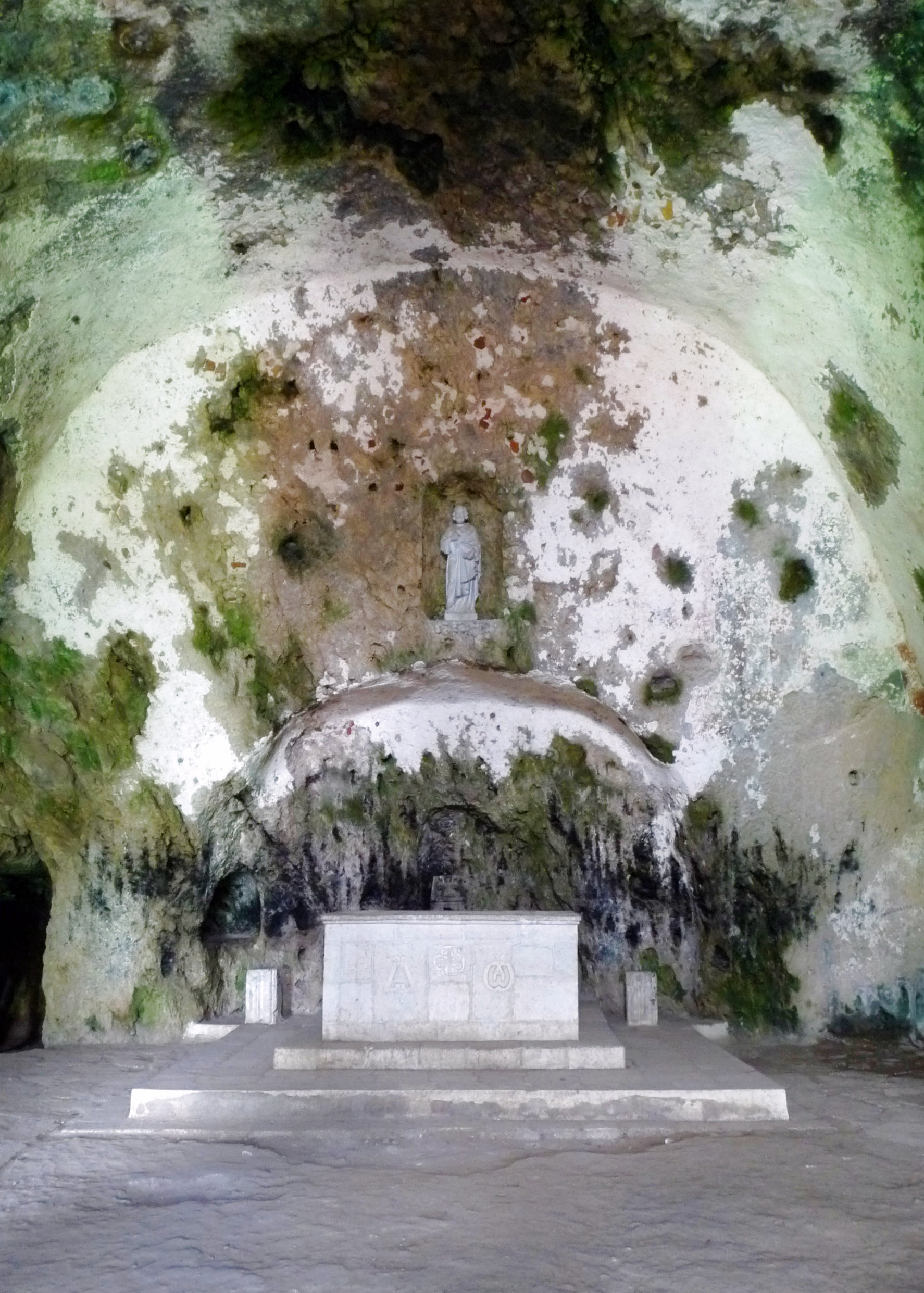 Altar of St Peter's Cave Church near Antakya (Antioch)